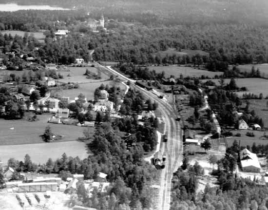 Aerial view over Älghultsby railway station, Ruda-Älghults Järnväg (RÄJ) and Östra Värends Järnväg (ÖVJ), Sweden. The railway line at the bottom of the image goes towards Sävsjöström. The goods shed is located in the middle of the image. The station building is in the grove above the goods shed, on the left. The track on the right, leadning upwards, leads to the locomotive sheds, the left shed belonging to RÄJ and the right shed belongning to ÖVJ.